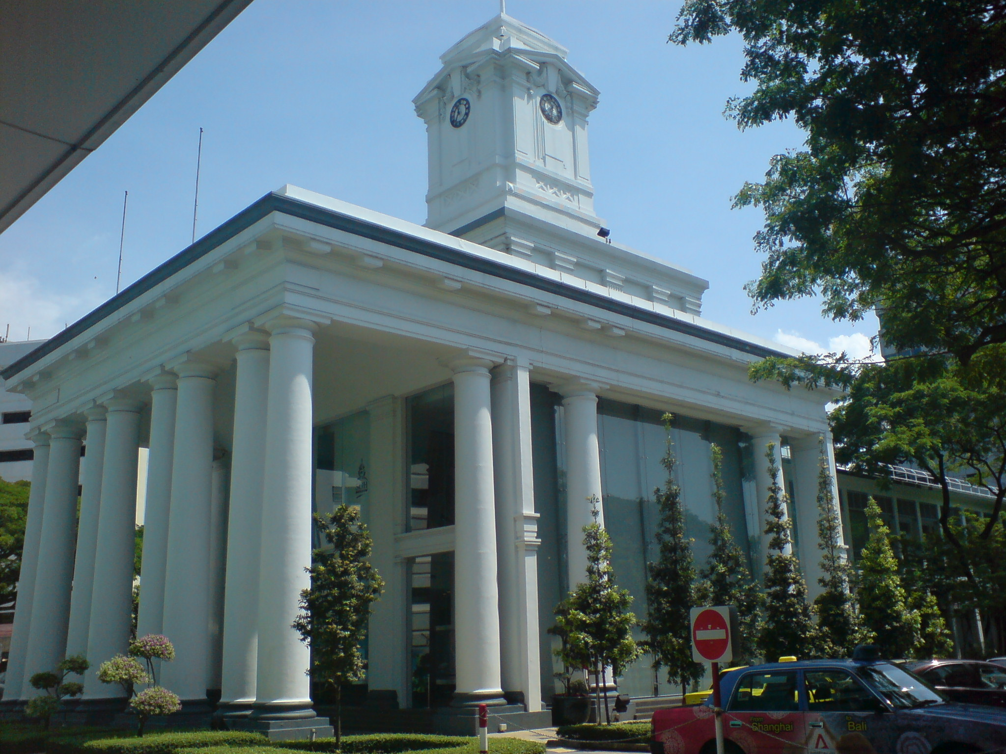 Photograph of the Bowyer Block at the Singapore General Hospital.